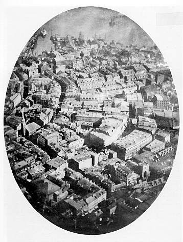 Photograph of Boston, Massachusetts taken from a balloon in 1860 by James Wallace Black